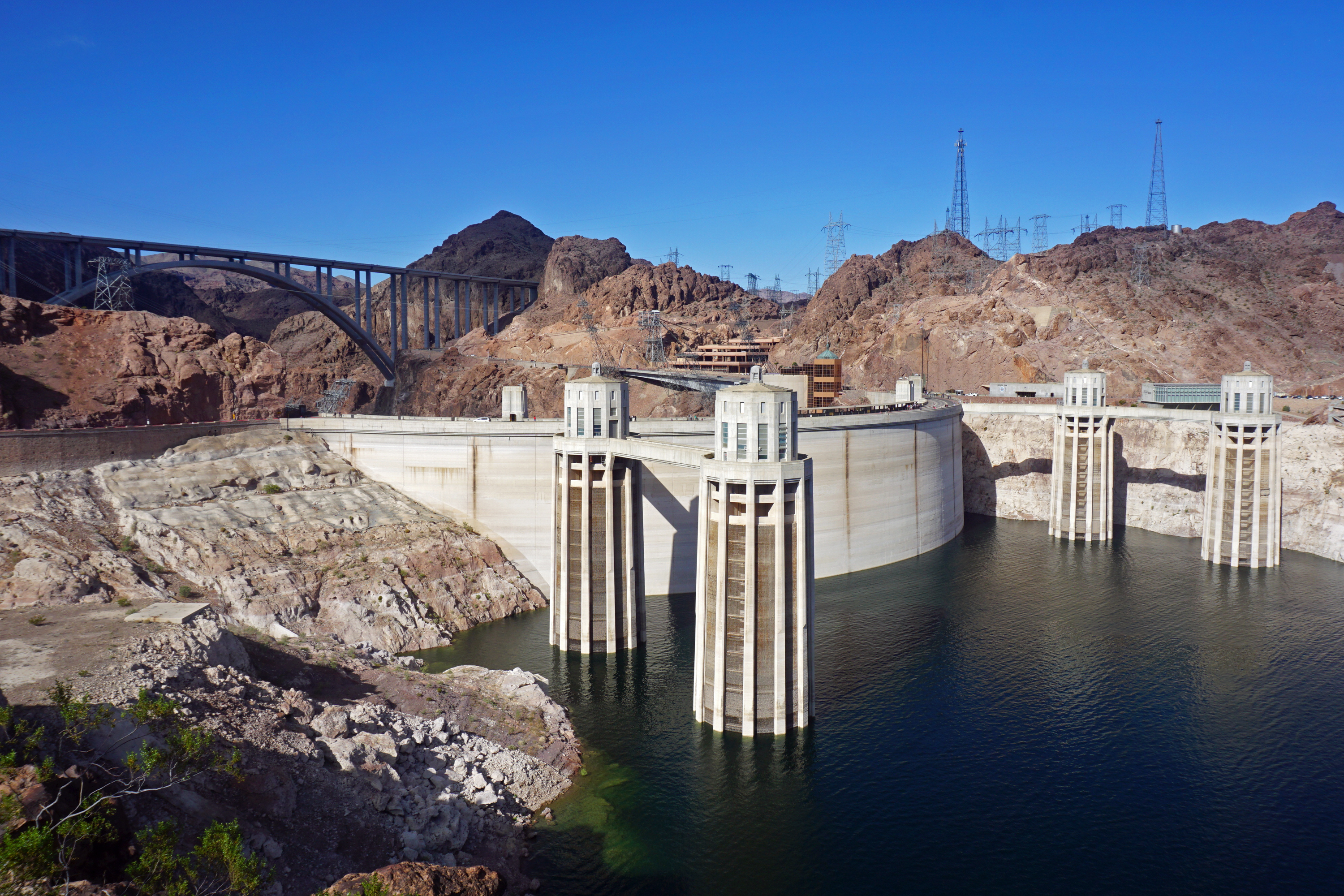 Hoover Dam, Nevada-Arizona.